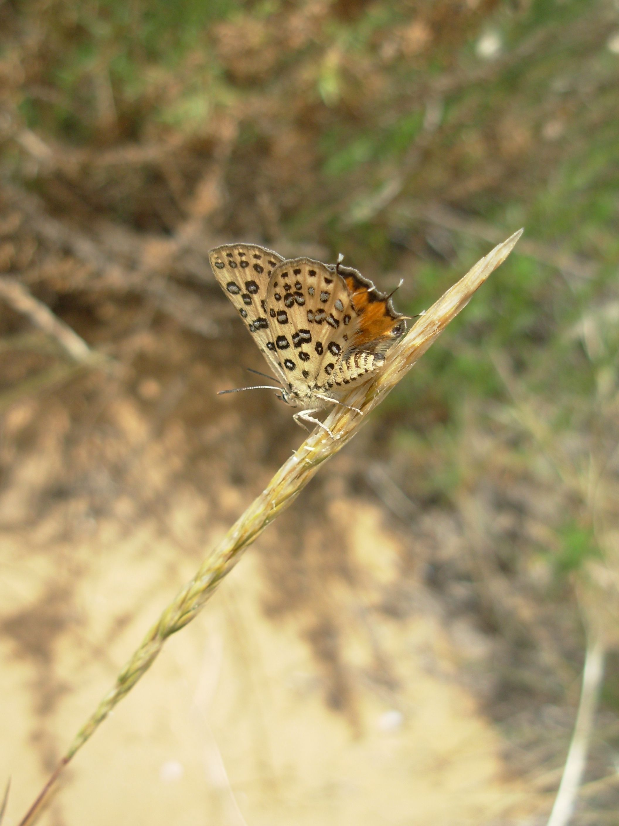 כחליל הגליל (Apharitis cilissa), אזור שכונת חפציבה בחדרה 20 במאי 2011